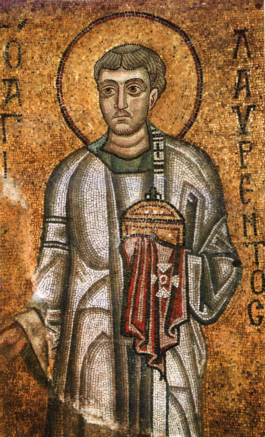 Saint Lawrence. Mosaic from the Saint Sophia Cathedral in Kiev.